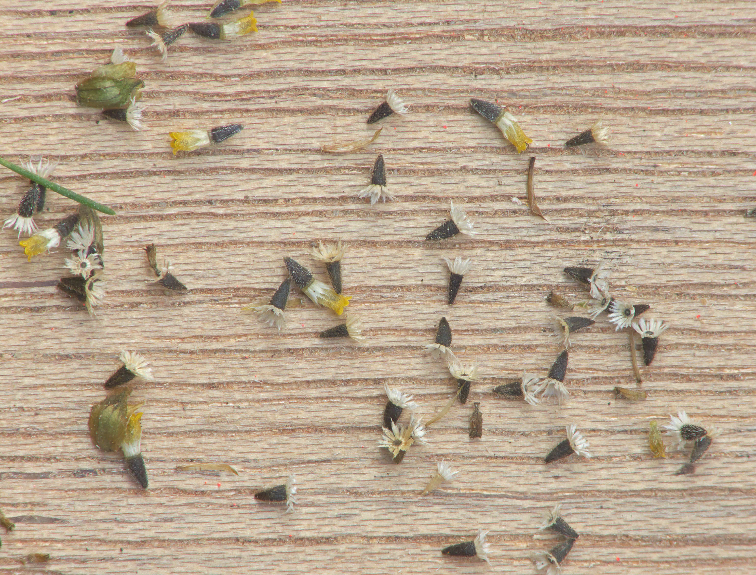 Galinsoga quadriradiata achenes, length without pappus 1-1.5 mm